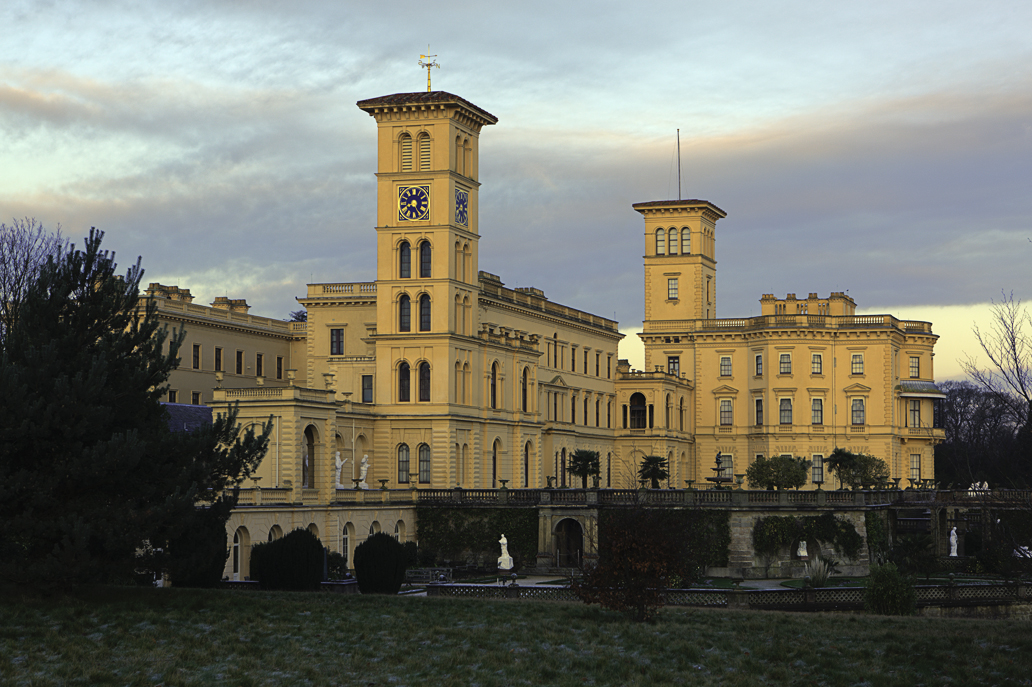 Detail of NE Façade